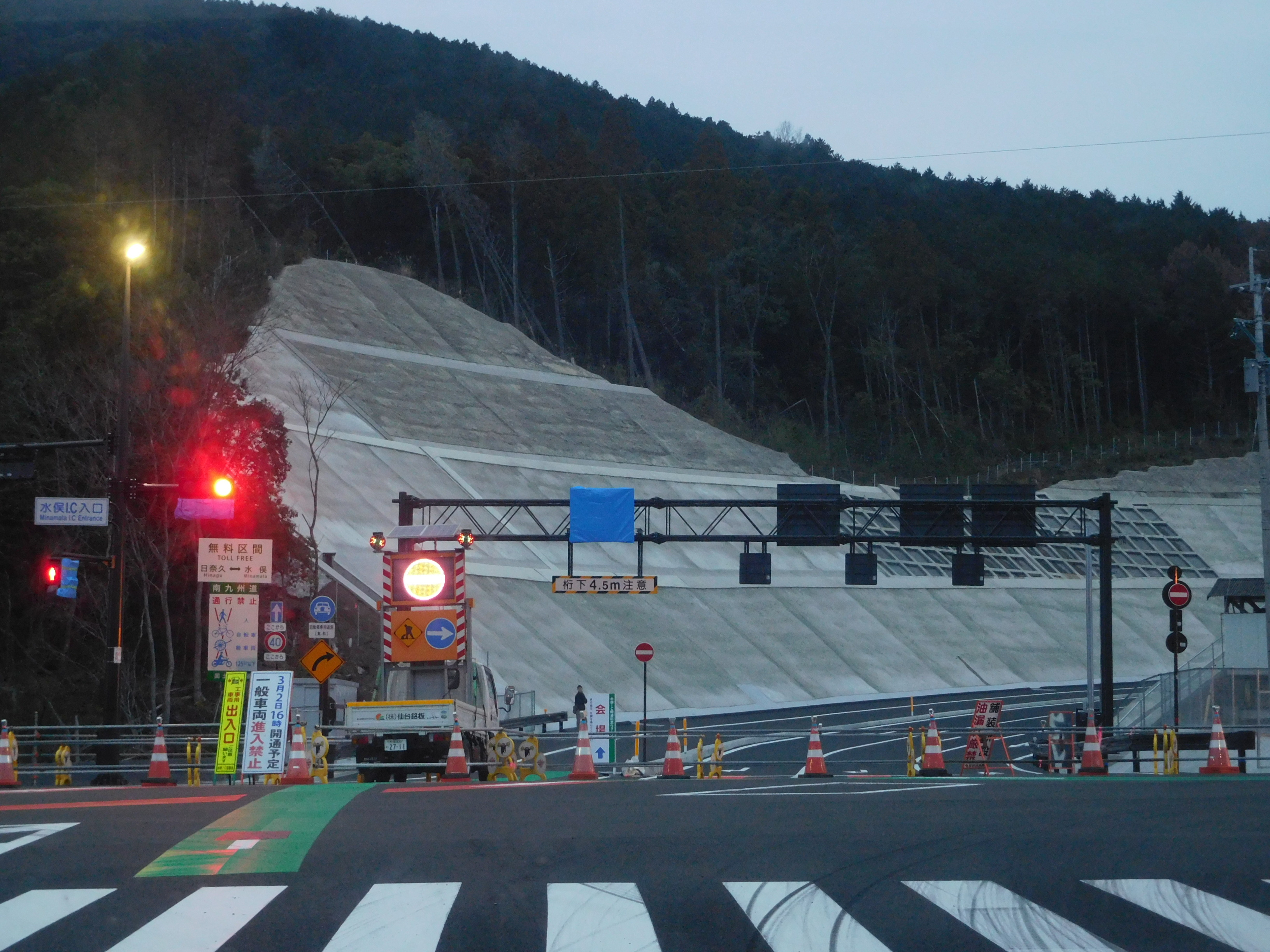 The Ramp of Minamata Interchange of Minami-Kyushu Expressway at Hibarigaoka, Minamata City, Kumamoto Prefecture, Japan.